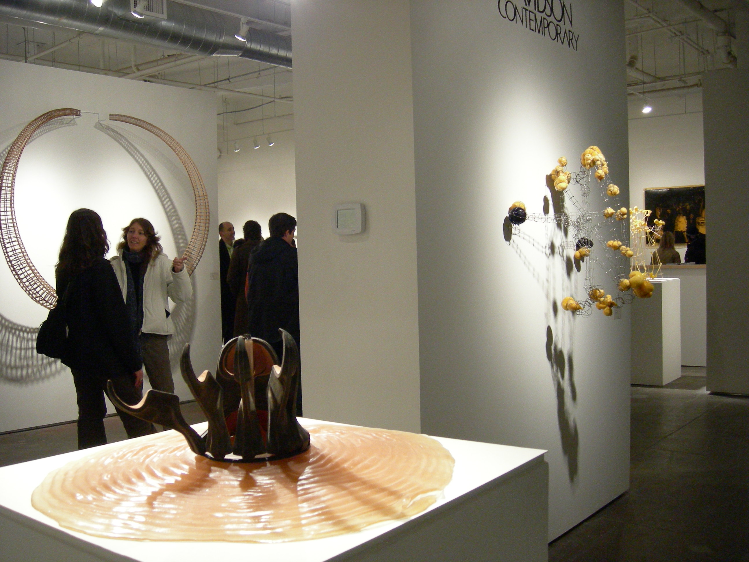 Davidson Contemporary gallery, Tashiro-Kaplan Building, Pioneer Square, Seattle, Washington